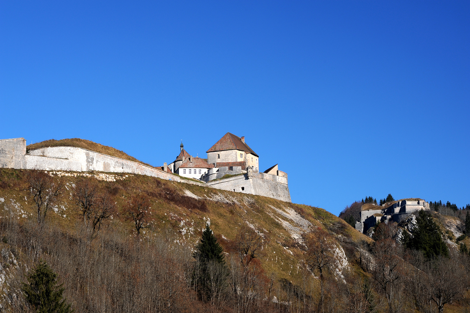 Château de Joux with fort Mahler in the background; Doubs, Franche-Comté, France.